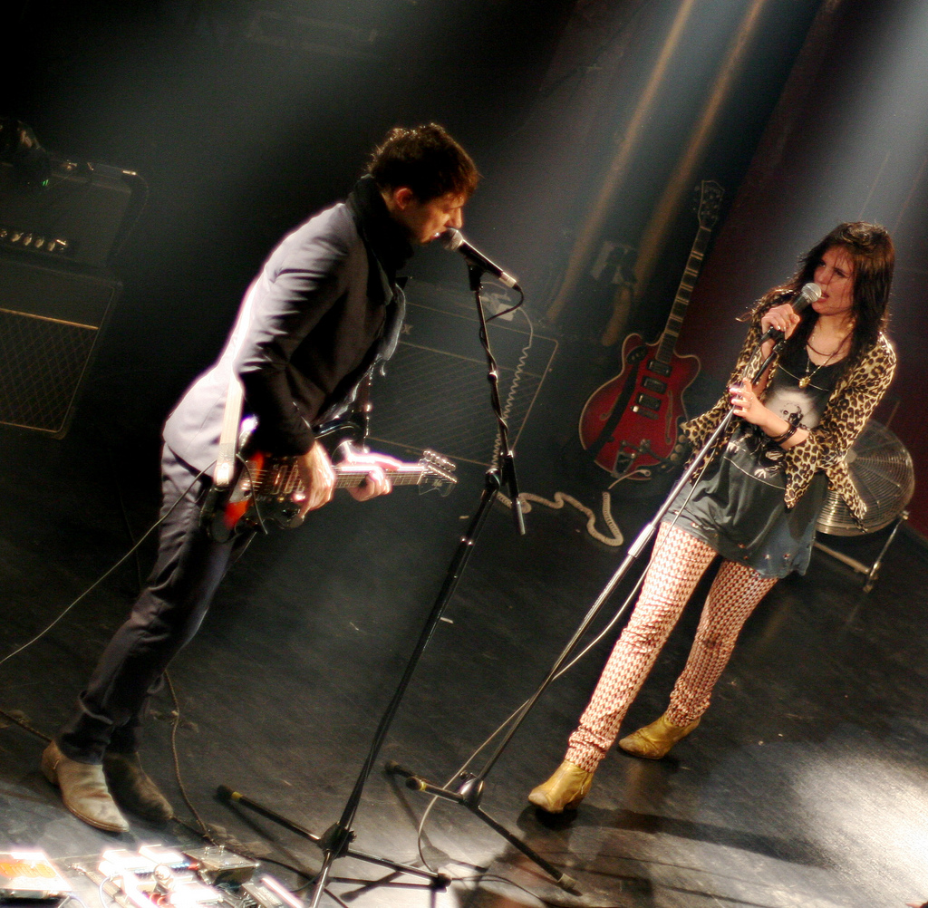 The Kills live in Barcelona in 2008